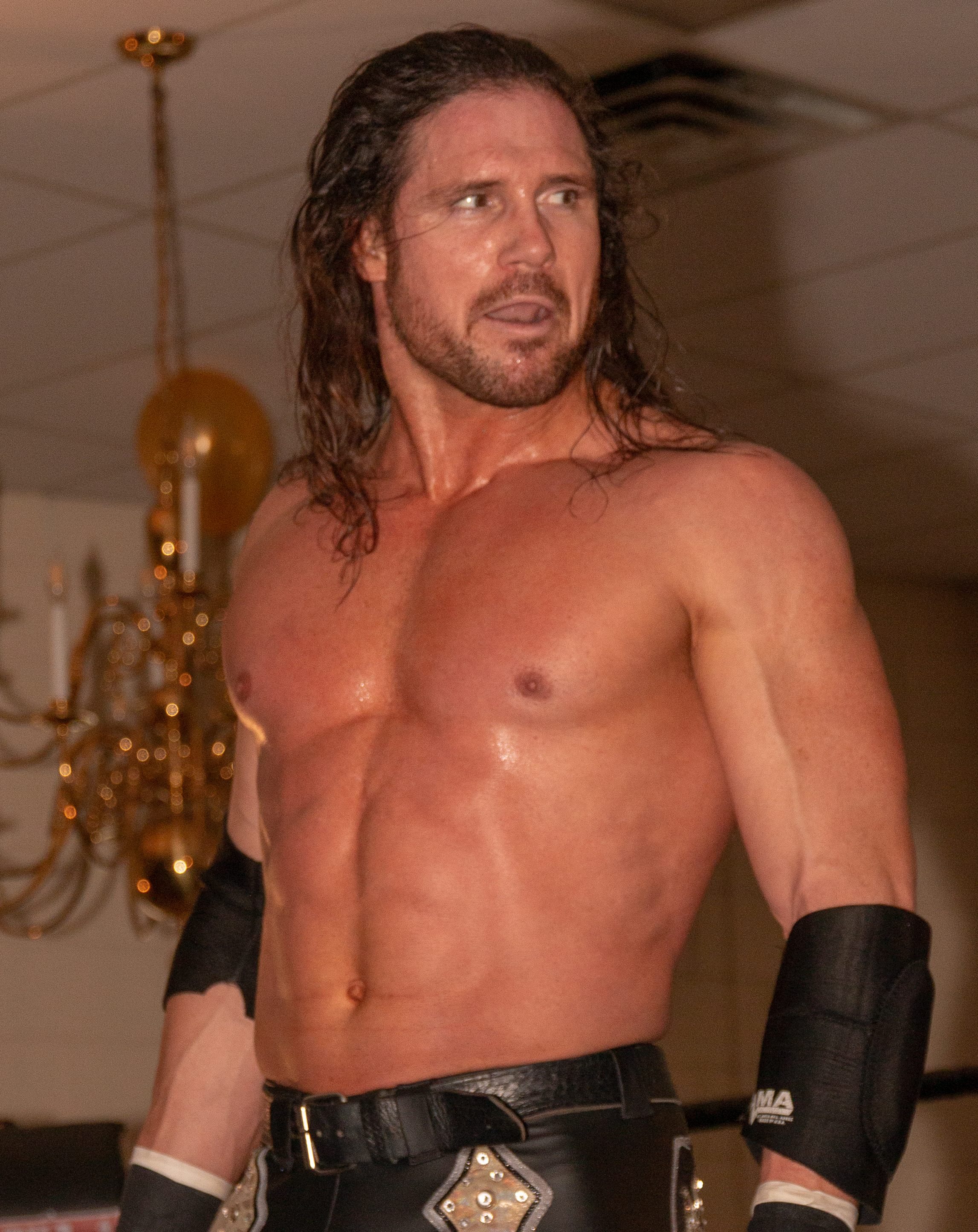 Johnny Impact post-match at Alpha-1 Wrestling's Super Slam show in February 2019. In his right hand is the Impact World Championship.